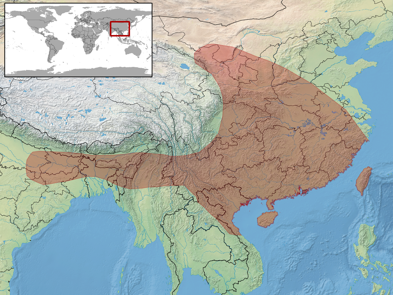 geographic distribution Protobothrops mucrosquamatus (Native: Bangladesh; China (Anhui, Fujian, Gansu, Guangdong, Guangxi, Guizhou, Hainan, Henan, Hubei, Hunan, Jiangxi, Nei Mongol, Ningxia, Shaanxi, Shanxi, Sichuan, Yunnan, Zhejiang); Hong Kong; India; Lao People's Democratic Republic; Myanmar; Taiwan, Province of China; Viet Nam)